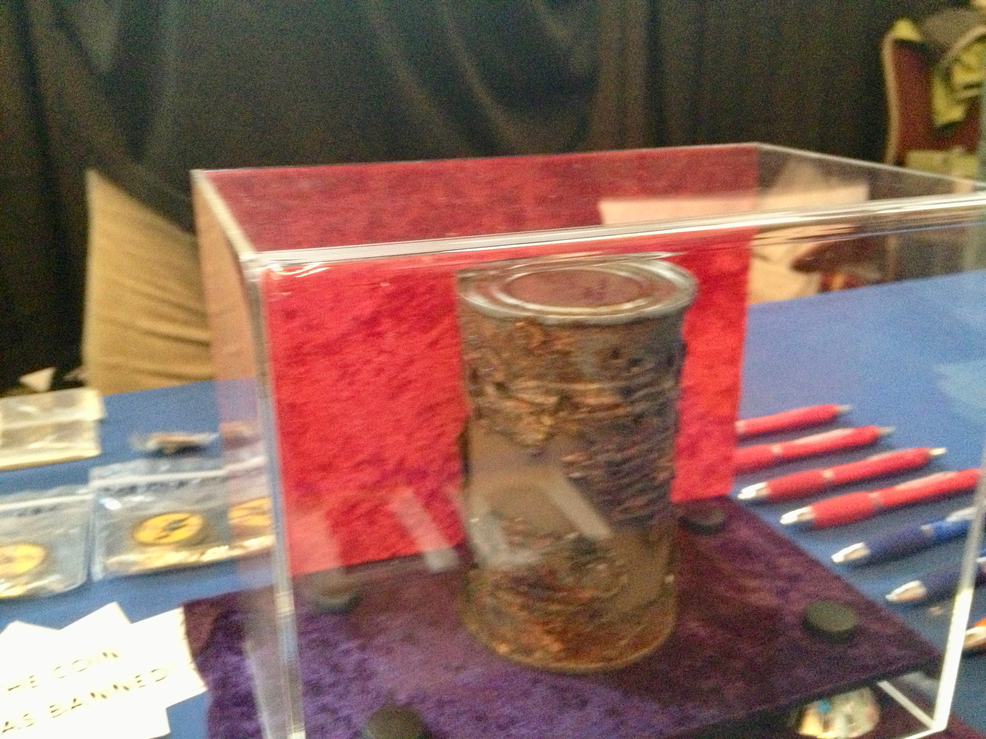 "Original Can of Beans" at the 2012 Geocoinfest Mega Event in Colorado. Brought to event by Joe Friday.